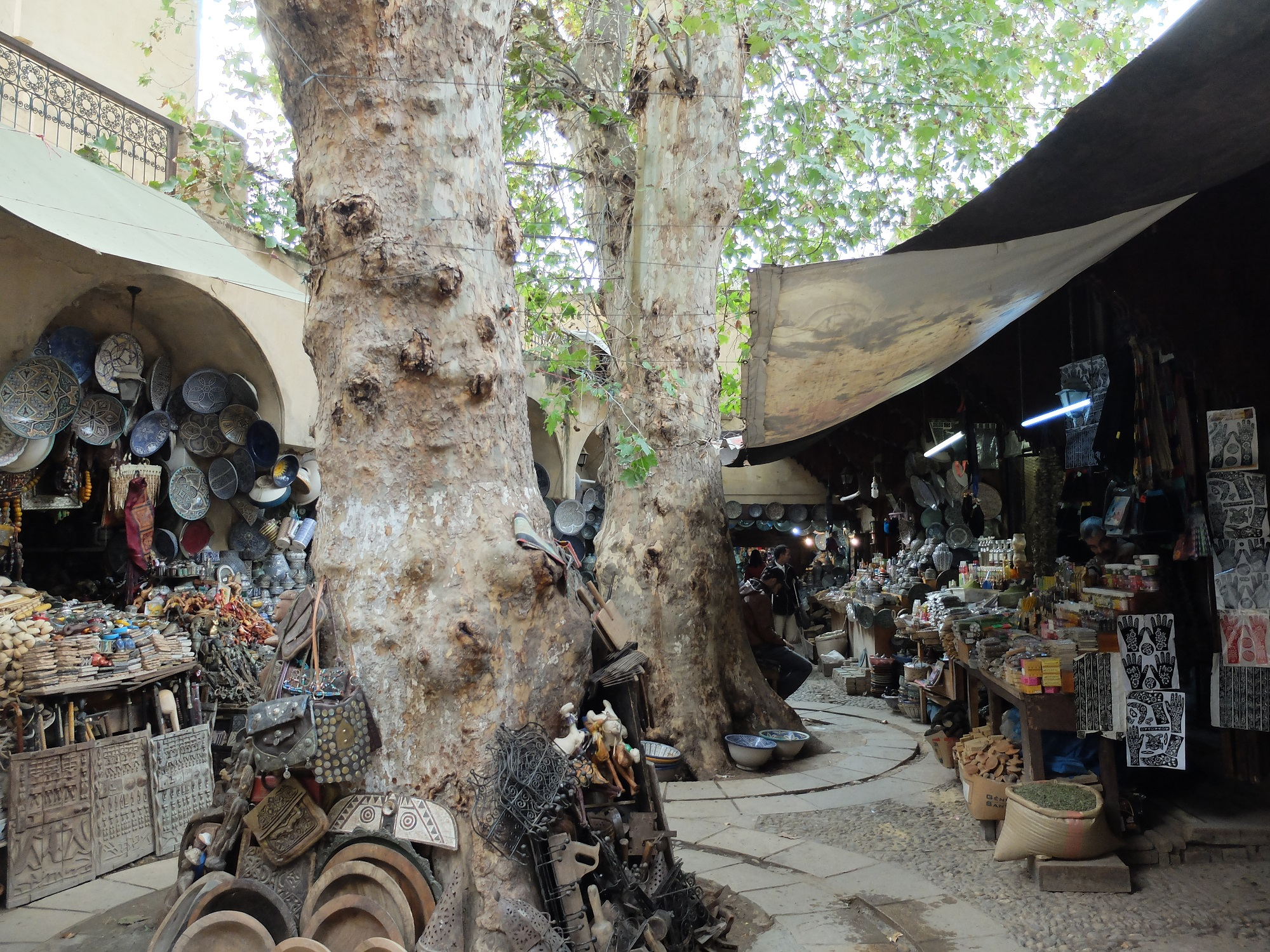 The Henna Souq in Fes el-Bali, a square ringed with tourist shops today.